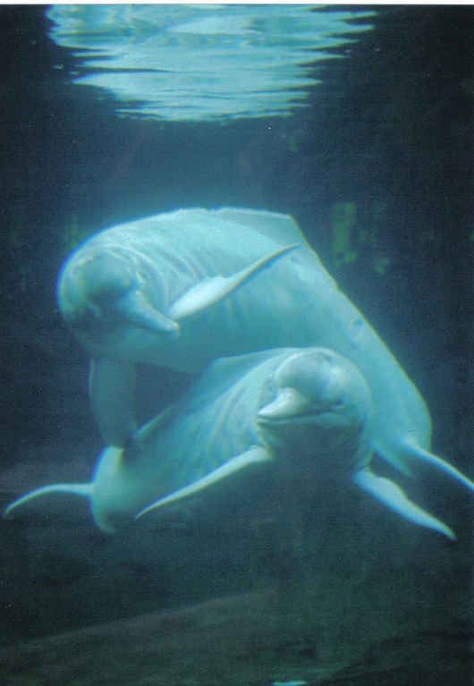 Apure (* ca. 1957; † 9. Oktober 2006 in Duisburg), here with his fellow Orinoko (top, * c. 1973), was a male Boto (Inia geoffrensis), which lived in the Duisburger Zoo. Apure died as eldest known Amazon River Dolphin with more than 40 years (estimated)